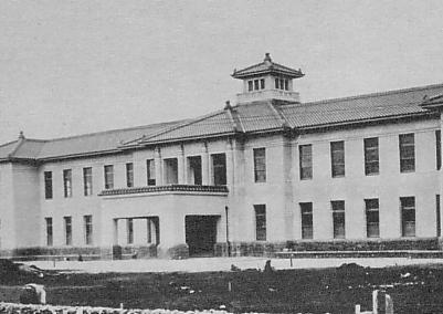 Hoko (Penghu) Prefectural Office